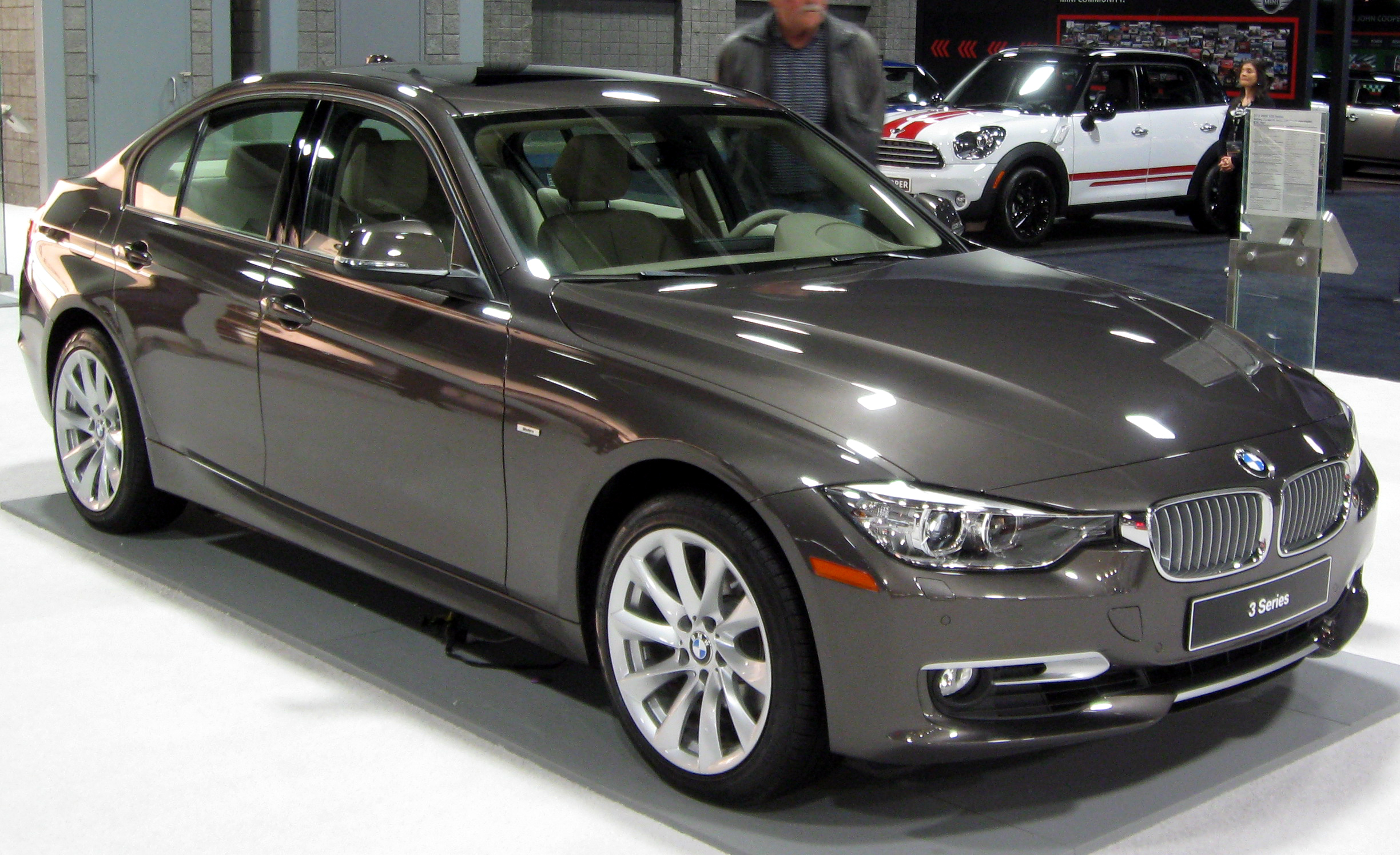 2012 BMW 328i photographed in Washington, D.C., USA.